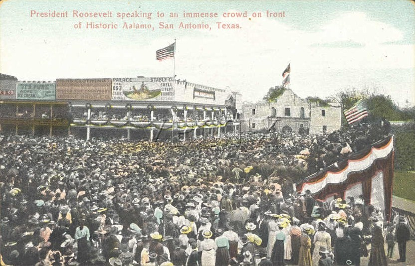 Postcard picture showing U.S. President Theodore Roosevelt speech and crowd at The Alamo in San Antonio; store Web page states: Note, Alamo is incorrectly spelled. Published by Grombach-Faisans Co. Ltd., New Orleans. View No. 10073." Other side of postcard, shown on the same Web page, gives publisher information and states "Made in Germany" at the spot reserved for the postage stamp. Per Roosevelt, Theodore (1906) A compilation of the messages and speeches of Theodore Roosevelt, 1901-1905, Bureau of National Literature and Art, pages 19, 601, the picture was taken during a speech Roosevelt gave on April 7, 1905.